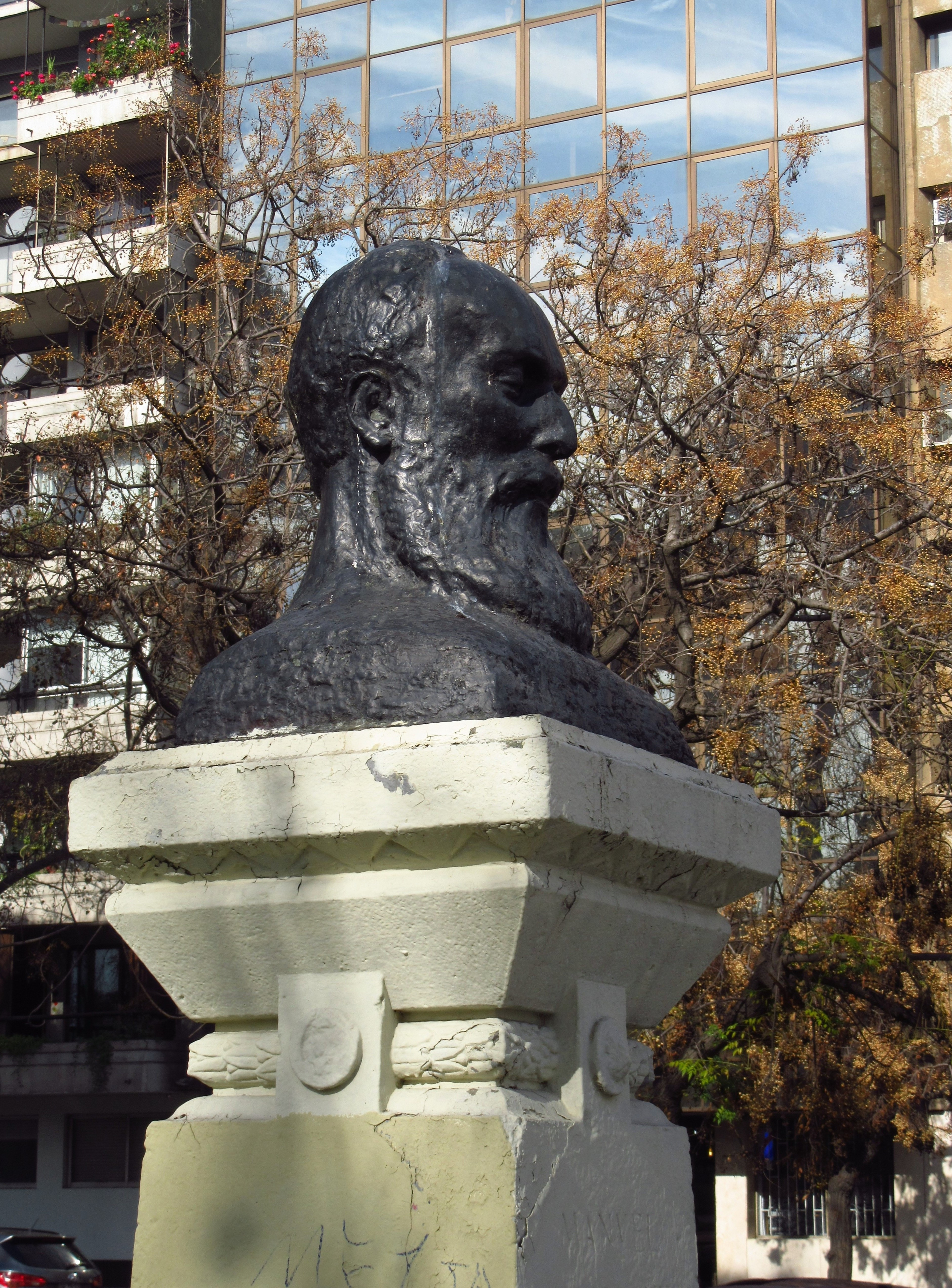 2017 in Santiago de Chile